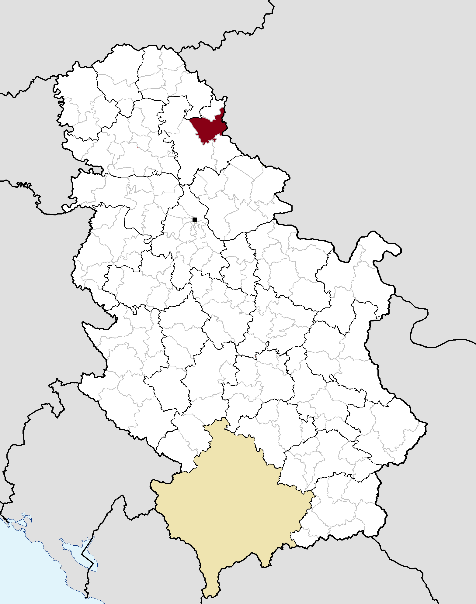 Municipal location in Serbia